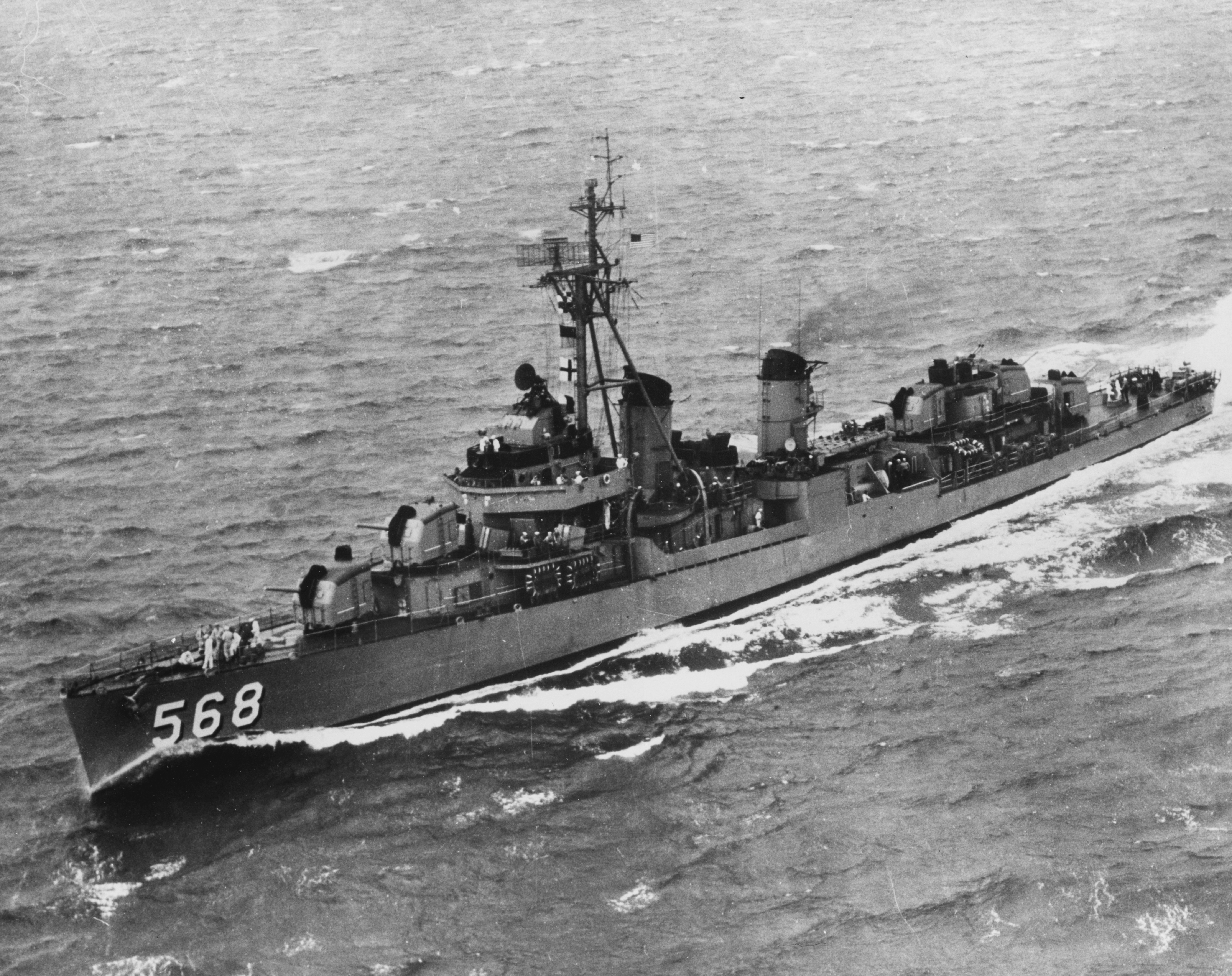 The U.S. Navy destroyer USS Wren (DD-568) underway, circa in the mid-1950s.